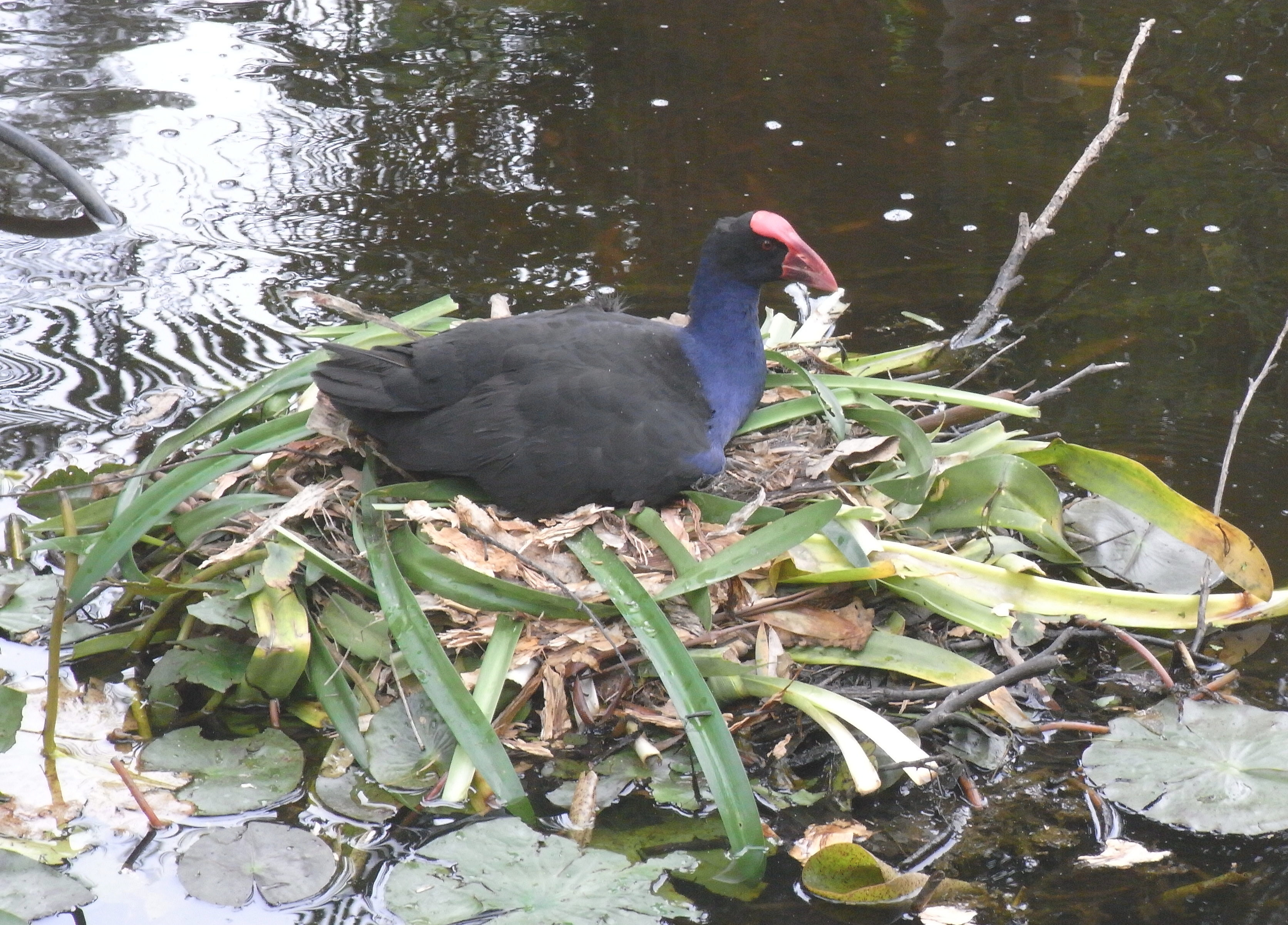 Purple Swamphen (Porphyrio porphyrio melanotus) nesting in a lake at Billabong Koala and Aussie Wildlife Park, Port Macquarie, New South Wales, Australia.